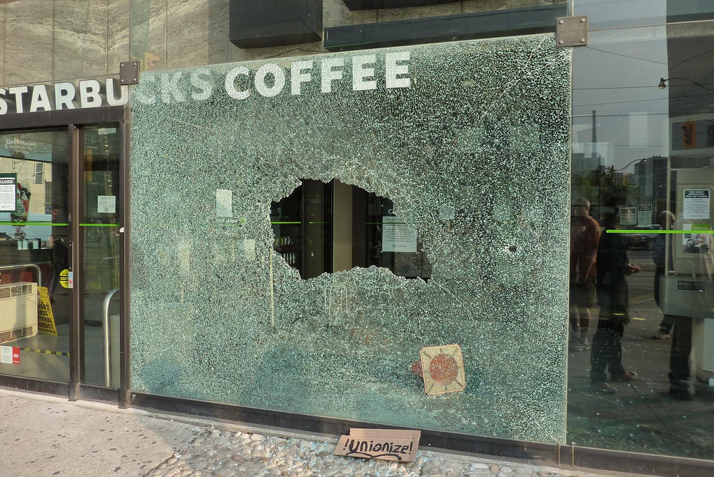 Protest aftermath - broken windows of the Starbucks at Queen and Bay Streets